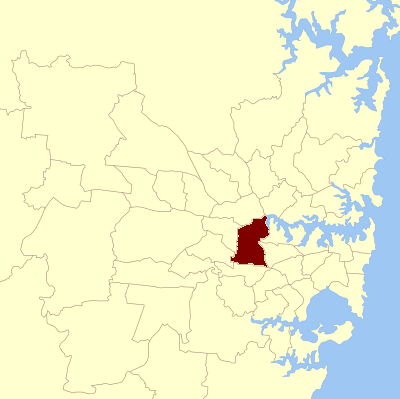 Location of the New South Wales Legislative Assembly electoral district within Sydney in New South Wales. Reference: [1]